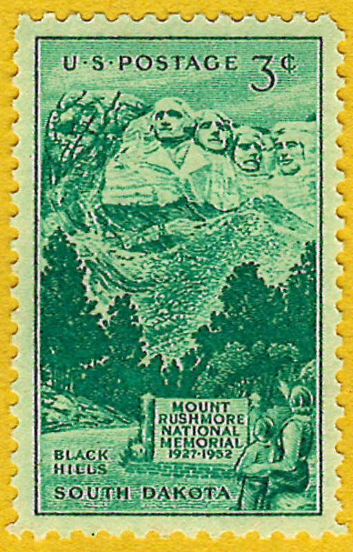 U.S. postage stamp of Mount Rushmore National Memorial 1927-1952 Black Hills, South Dakota - 116,255,000 issued August 11, 1952 Keystone, South Dakota - commemorative 25th anniversary stamp - Designer: William. K. Schrage - Engraver: M. D. Fenton